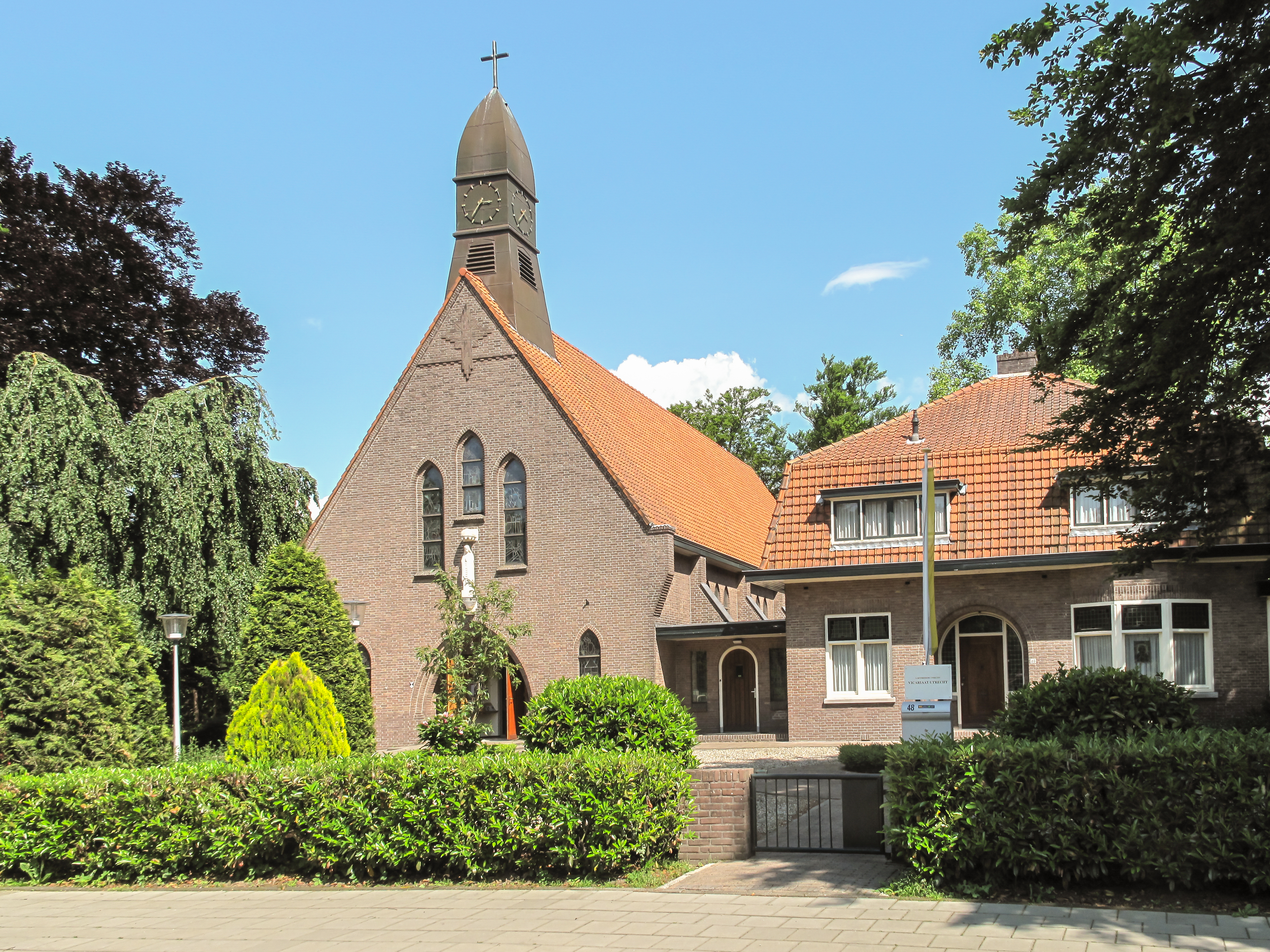 Maarn, church: de Sint Theresiakerk